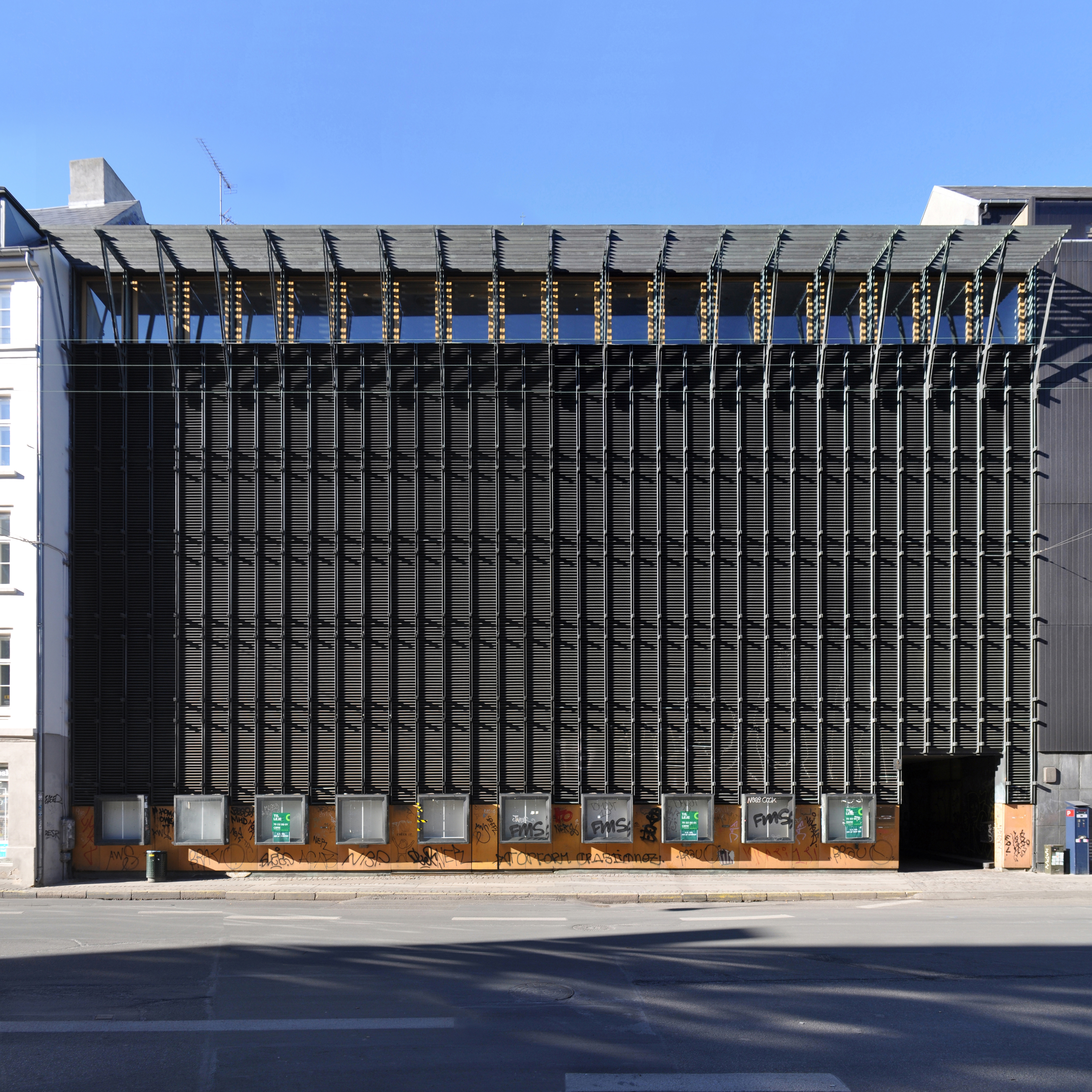 bremerholm transformer, bremerholm 6, copenhagen 1962-1963. architect: hans chr. hansen, 1901-1978, working for the copenhagen municipal architects department under f.c.lund, 1896-1984.